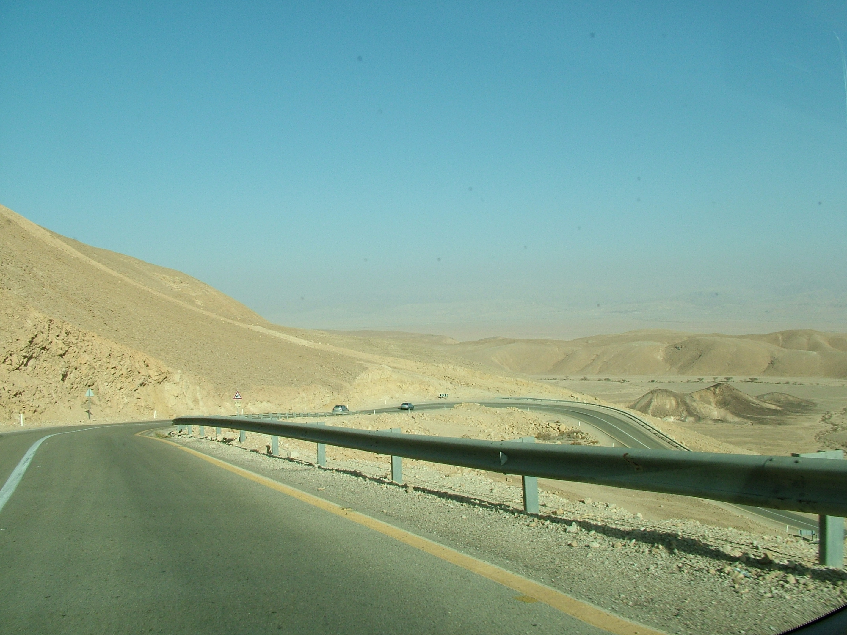 A view of Highway 40 descending the northern ridge of the Ramon Crater (Makhtesh Ramon) in the Negev Desert of Southern Israel.